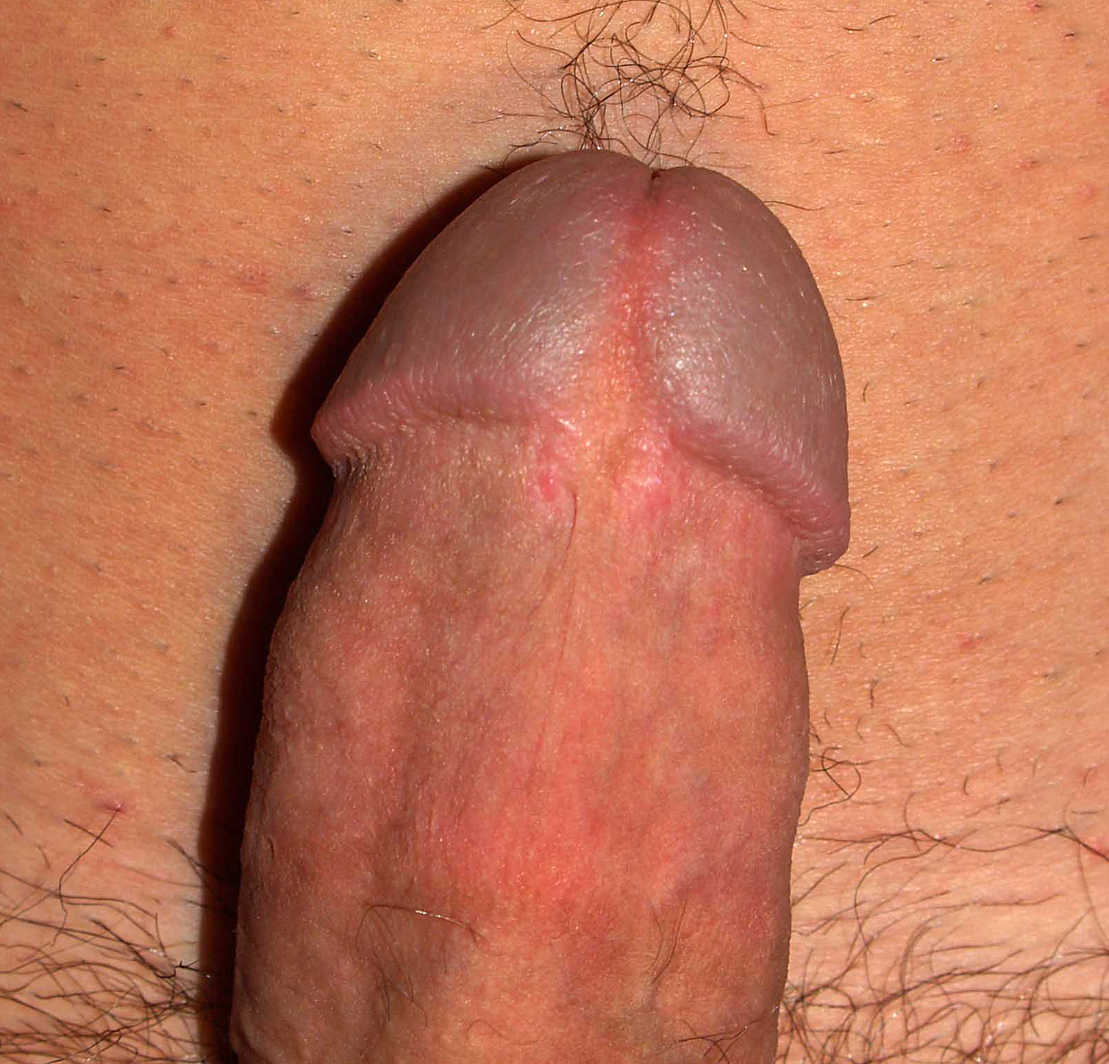 Glans Penis of a model in New York City.